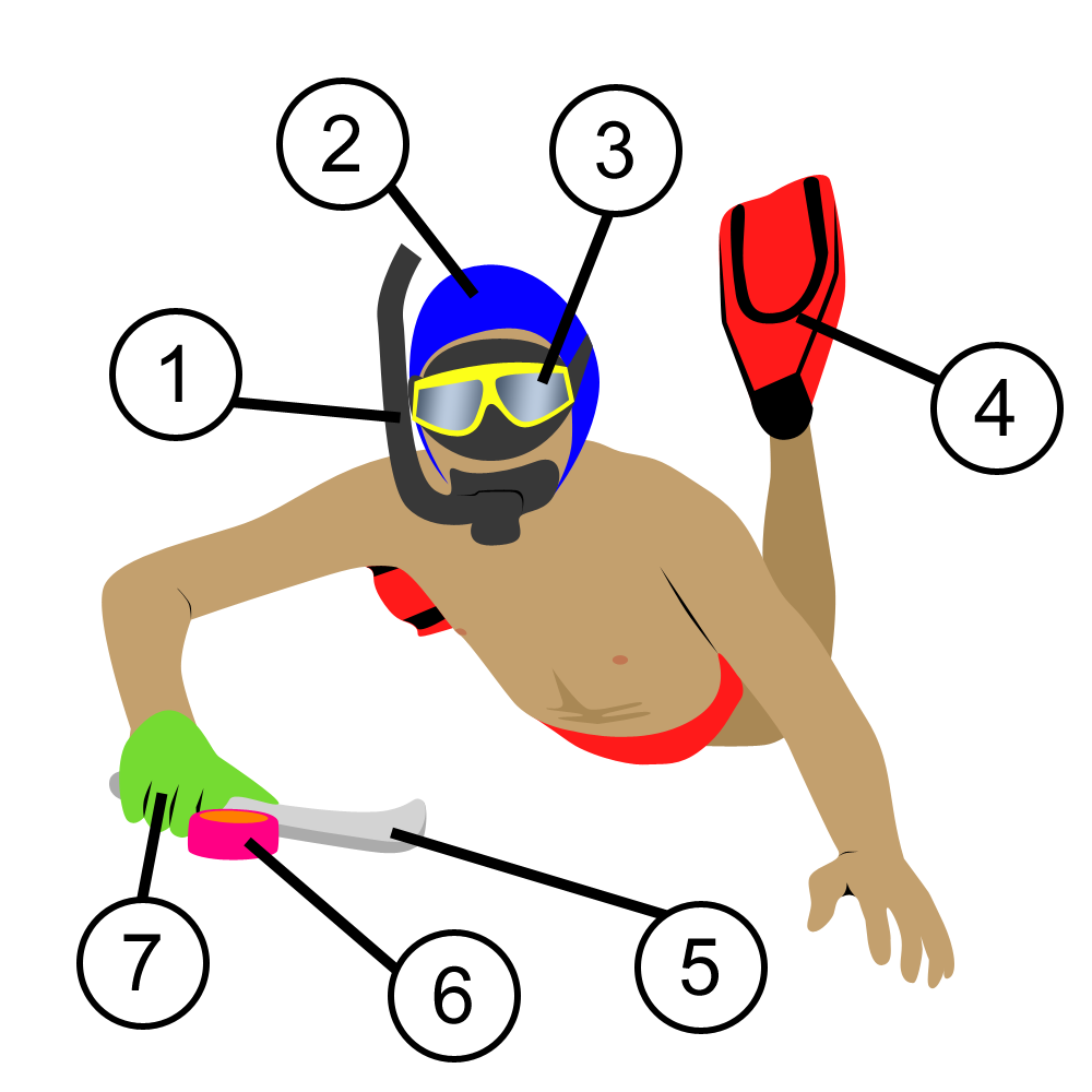 An annotated image of an Octopush (Underwater Hockey) player.